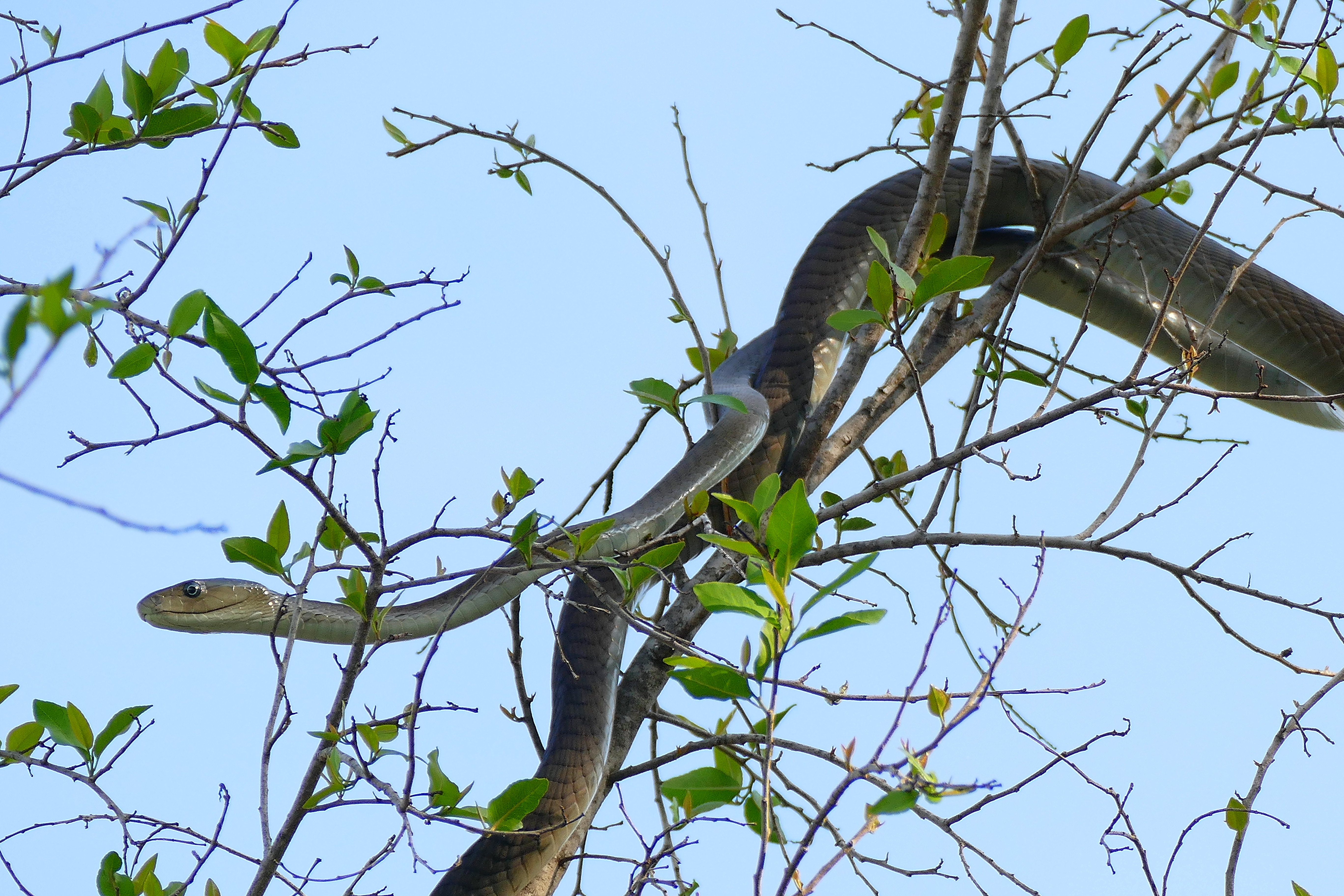 H4-1 Road North of Lower Sabie, Kruger NP, Mpumalanga, SOUTH AFRICA